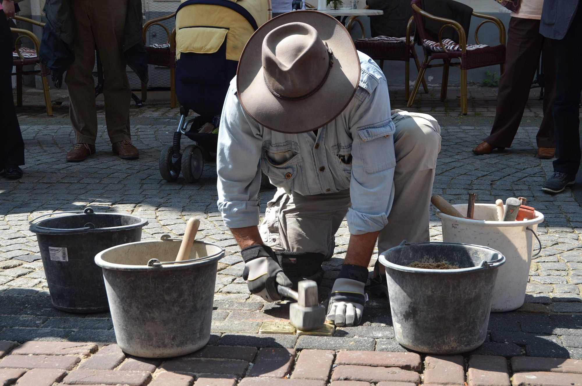 Moers (North Rhine-Westphalia, Germany) – cobblestone-sized memorial "Stolpersteine", dedicated to family Chaim – laying by Gunter Demnig This photograph was taken with a Nikon D7000.